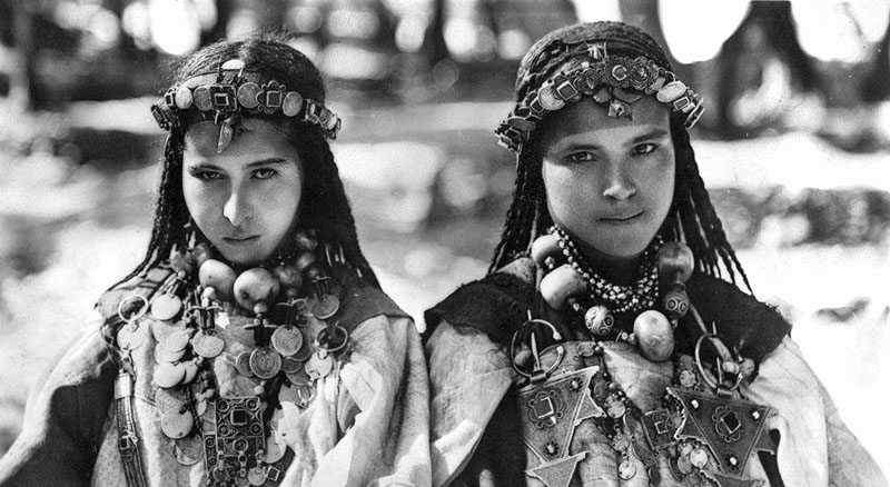 Historical photographs of Moroccan women.